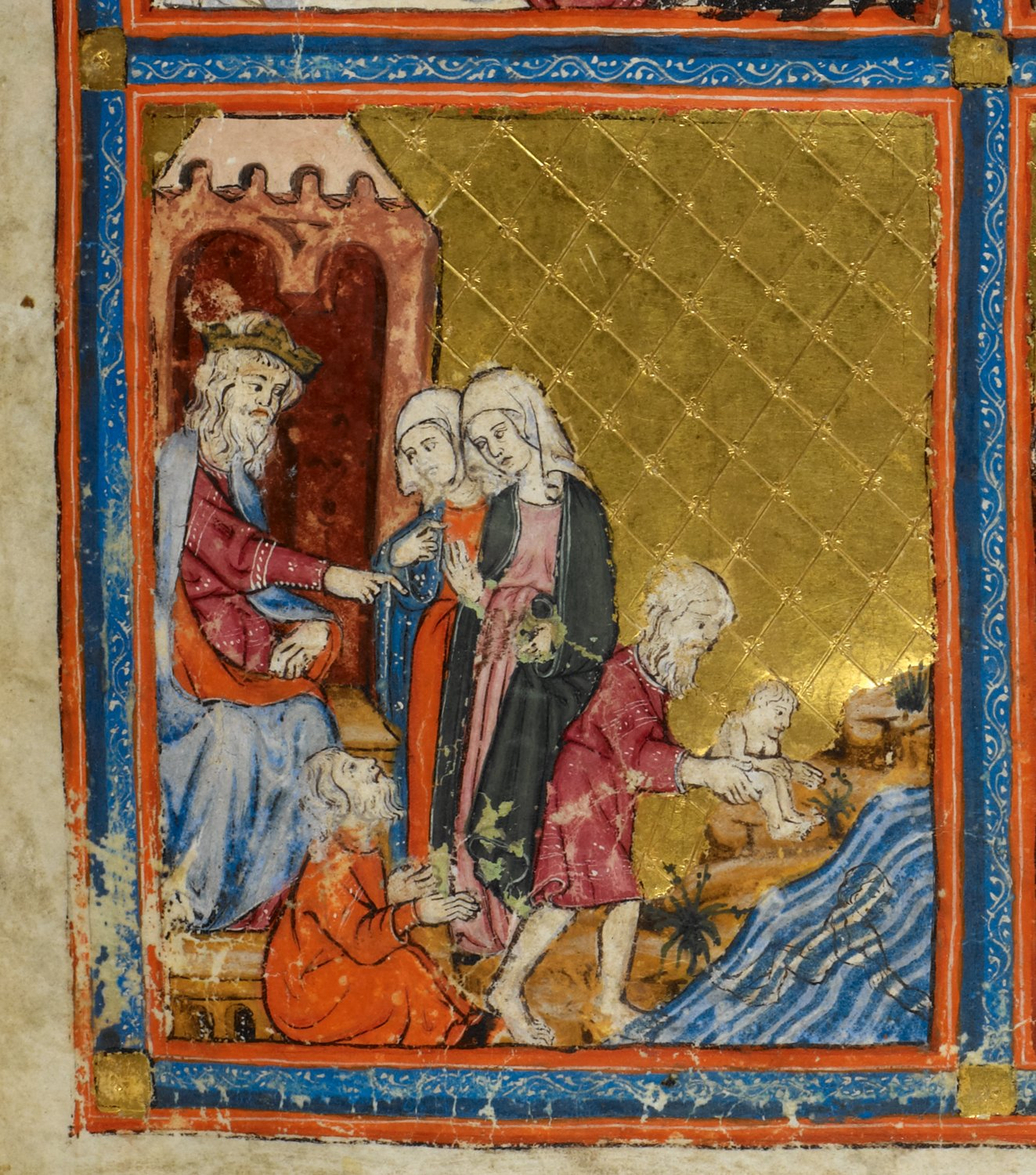 Pharaoh and the Midwives, miniature on vellum from the Golden Haggadah, Catalonia, early 14th century, at the British Library, London